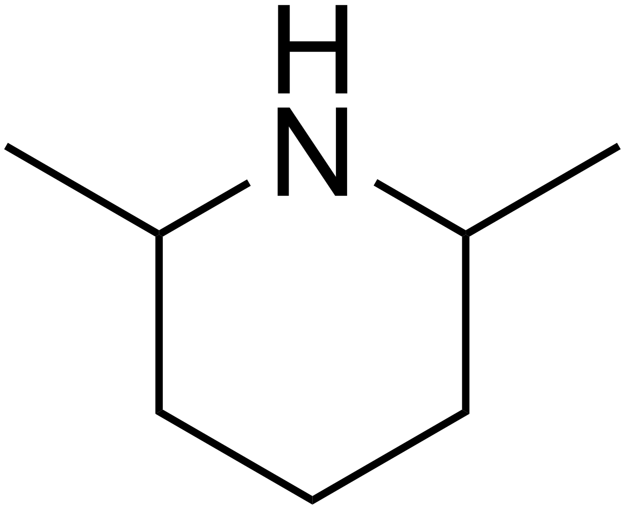 chemical structure of 2,6-dimethylpiperidine